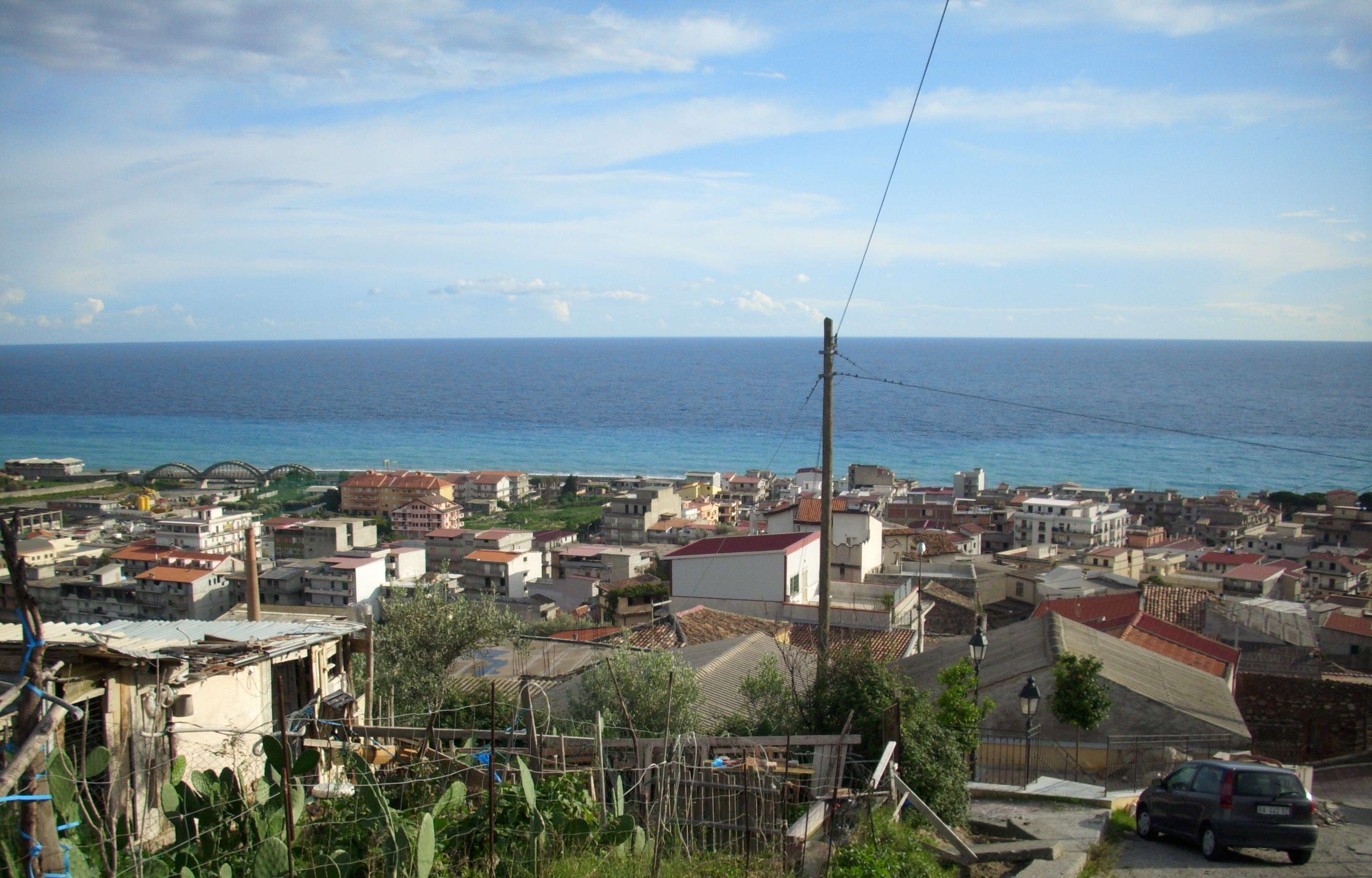 A view of the city of Melito, in Calabria.